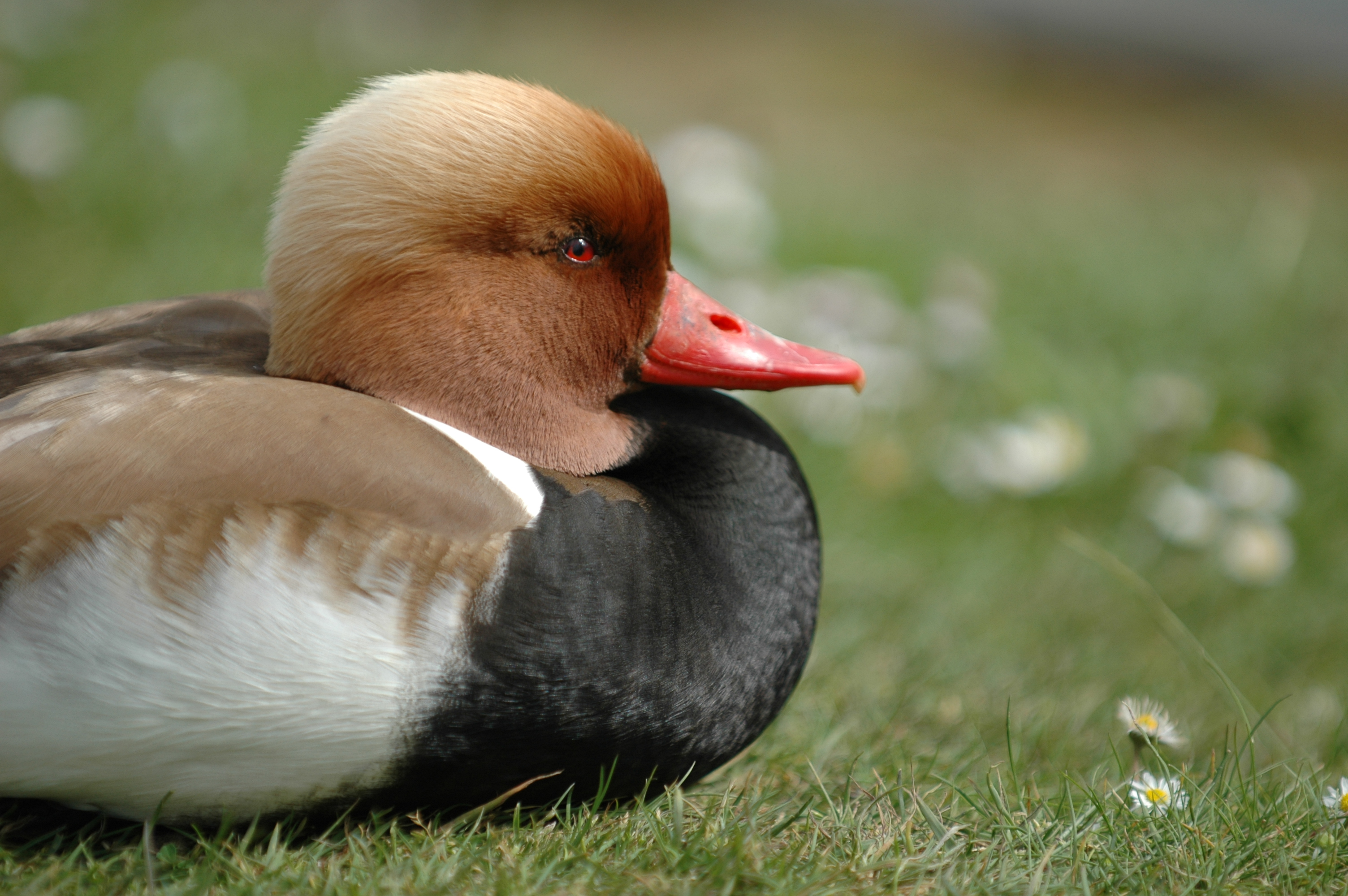 Red Crested Pochard taken in Surrey England.Red-crested Pochard